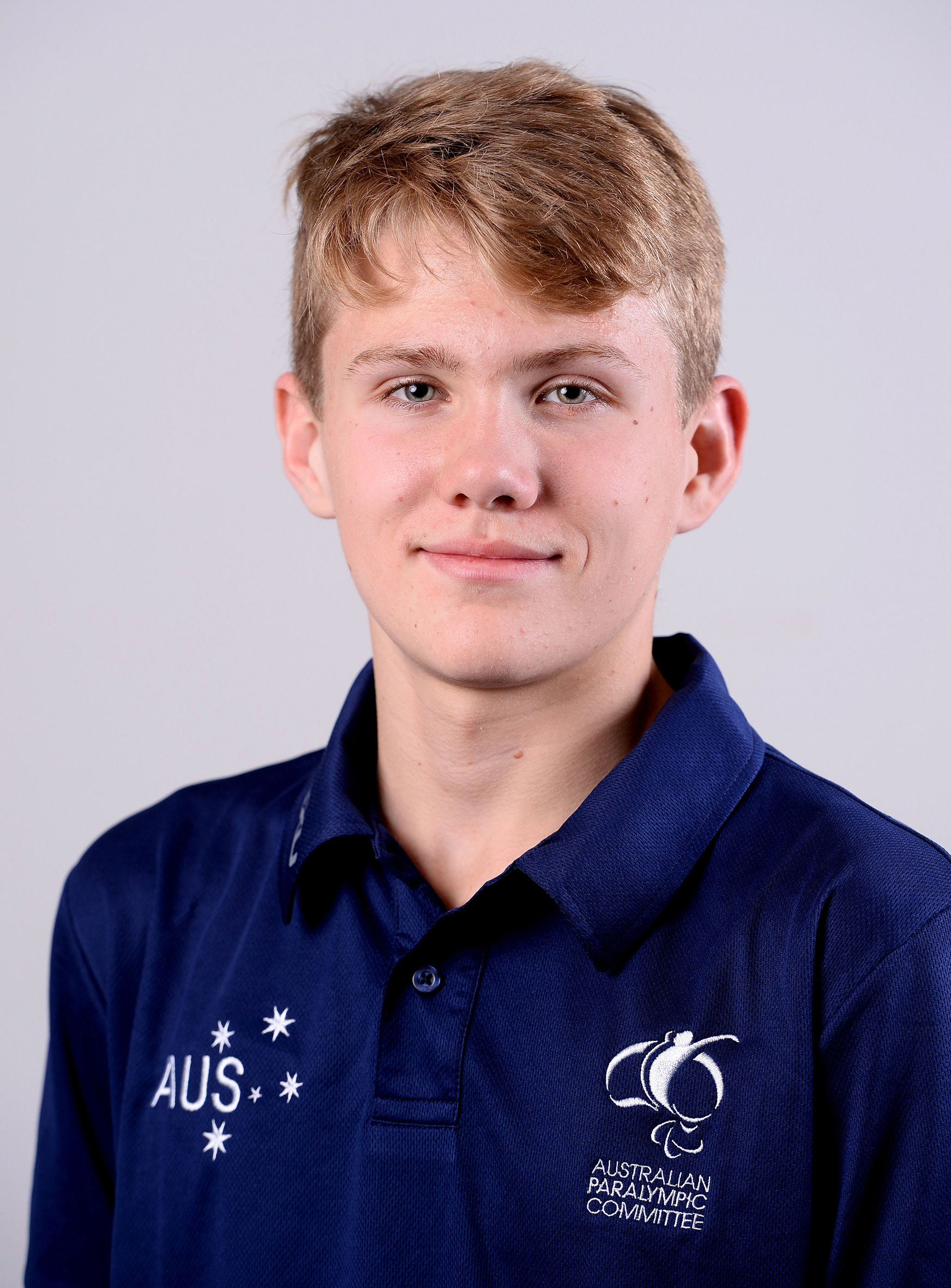 Portrait photograph of Timothy Hodge taken at team processing session for shadow members of 2016 Australian Paralympic team